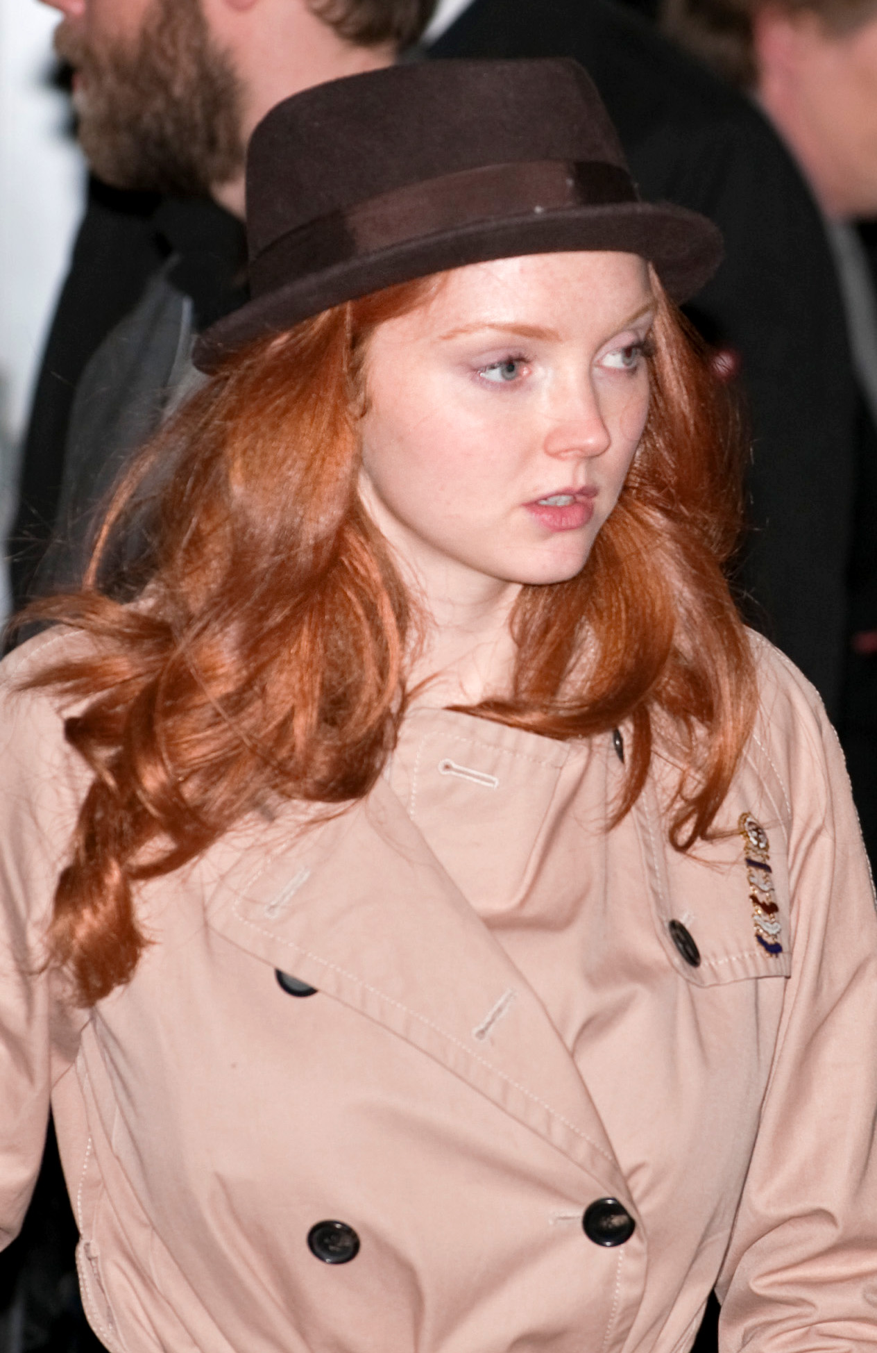 Model and actress Lily Cole at the 59th Berlin International Film Festival at a Berlin street